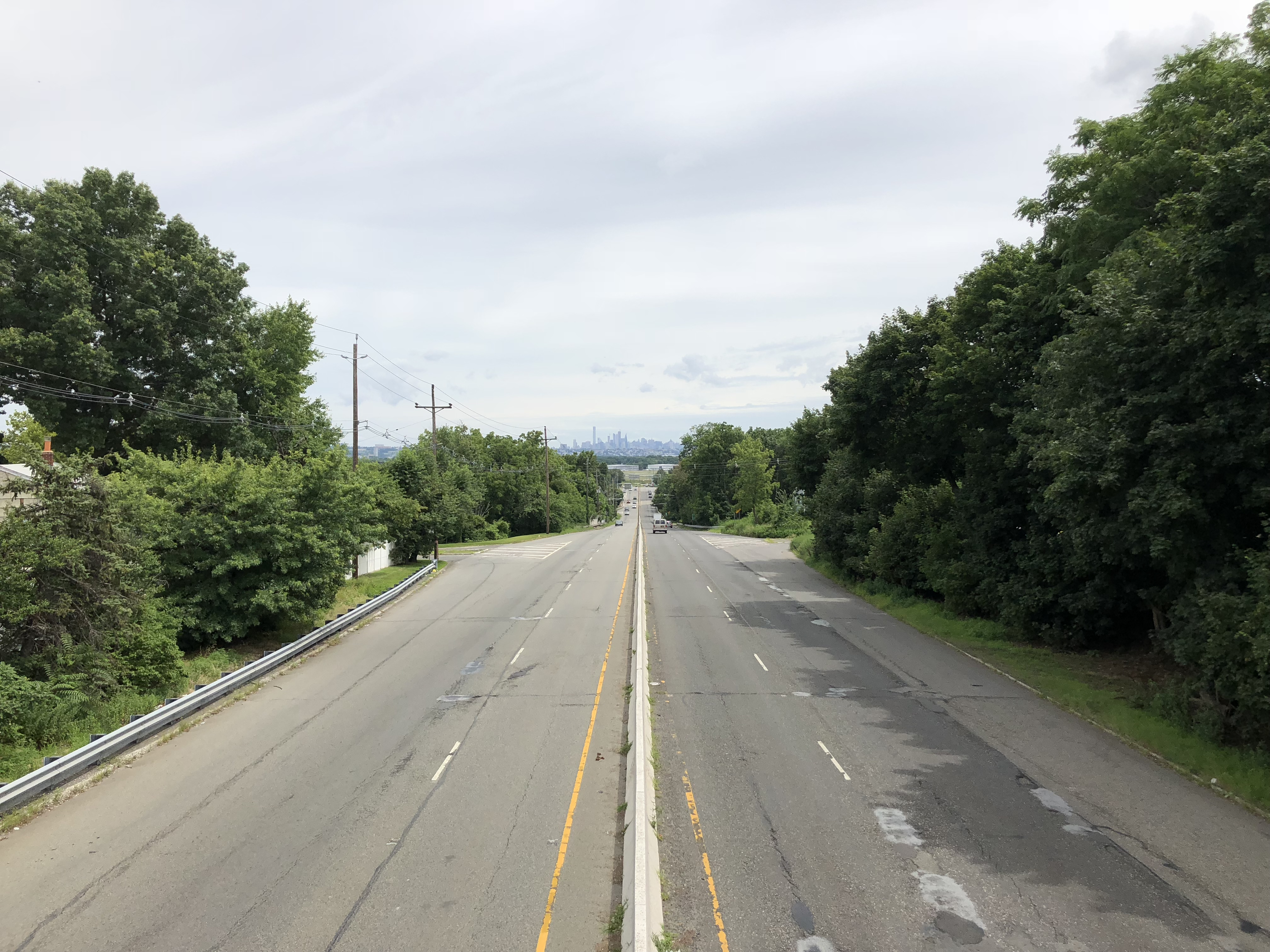 View east along U.S. Route 46 from a pedestrian overpass at Collins Avenue in Hasbrouck Heights, Bergen County, New Jersey